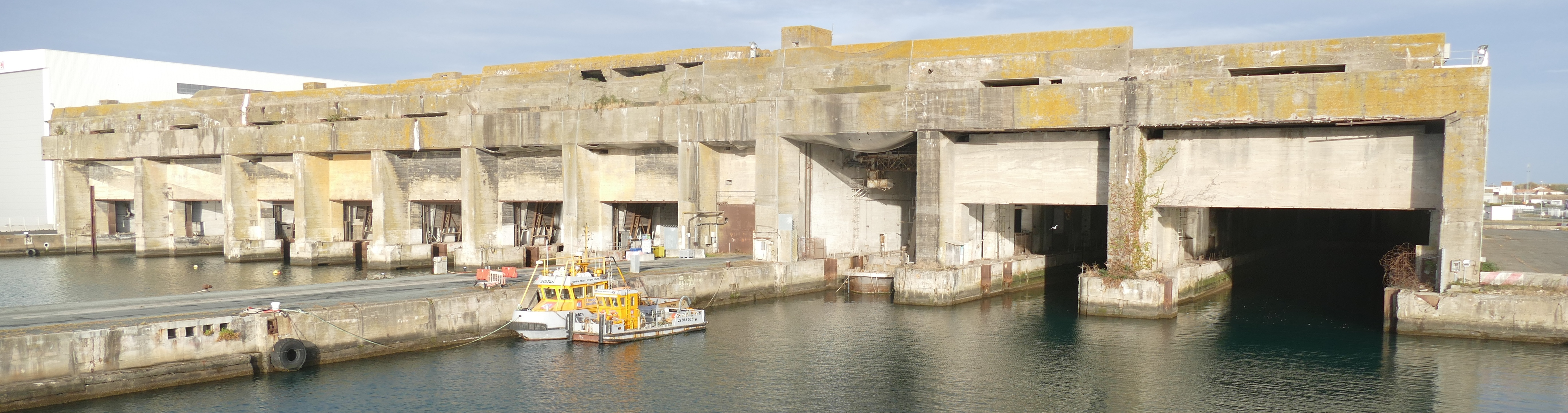 Submarine bunker in La Pallice